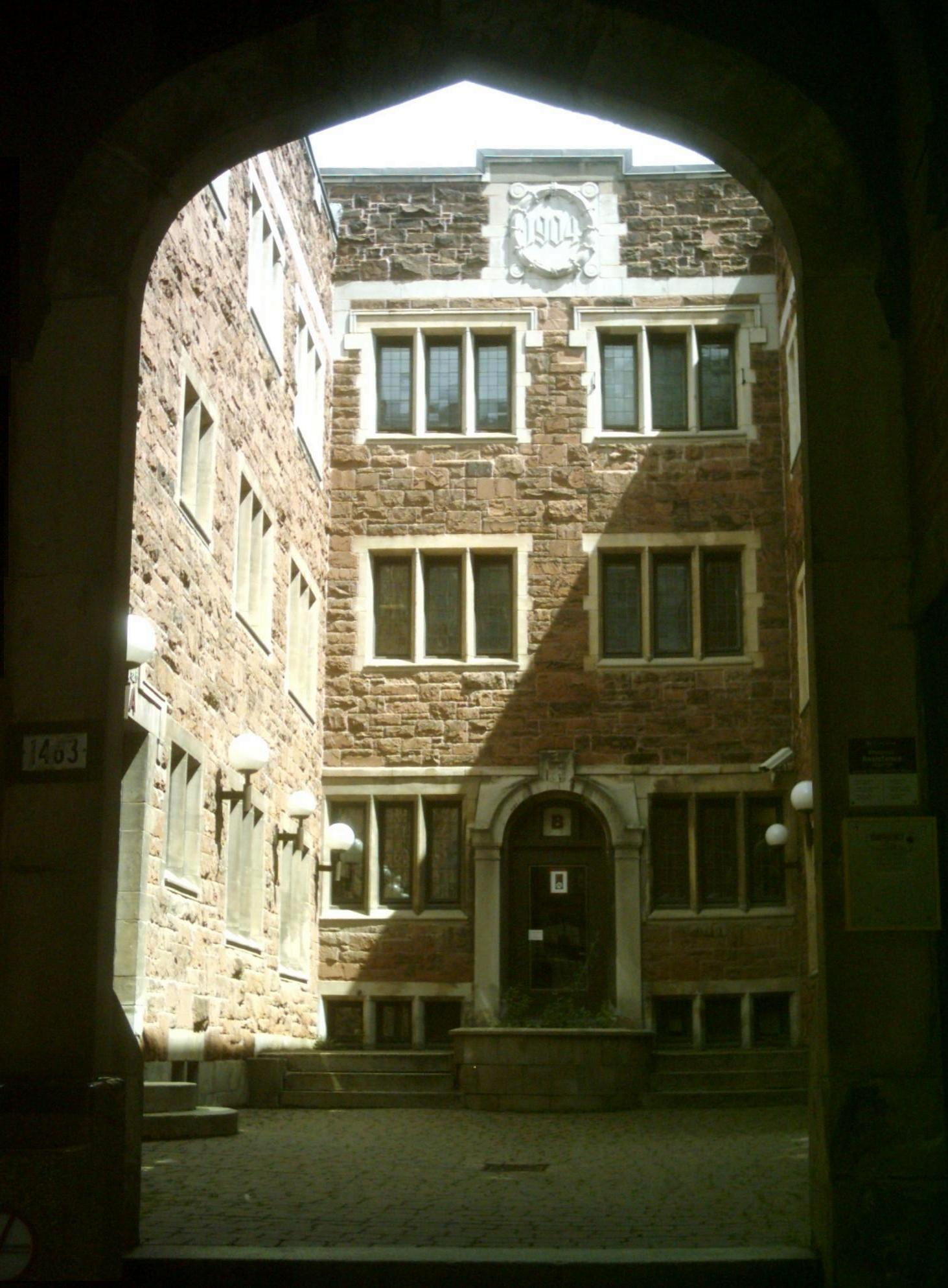 View of the inner courtyard, Bishop Court Apartments, 1463, Bishop Streets, Montreal, Quebec, H3G, Canada.